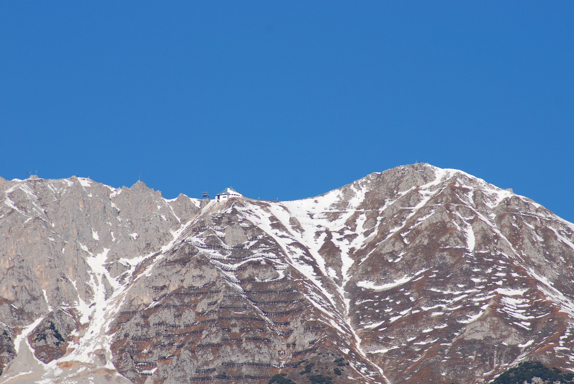 Hafelekar Mountain, Innsbruck, Tirol, Austria Photographed 2006-12-27 by myself Veitmueller 11:30, 27 December 2006 (UTC)